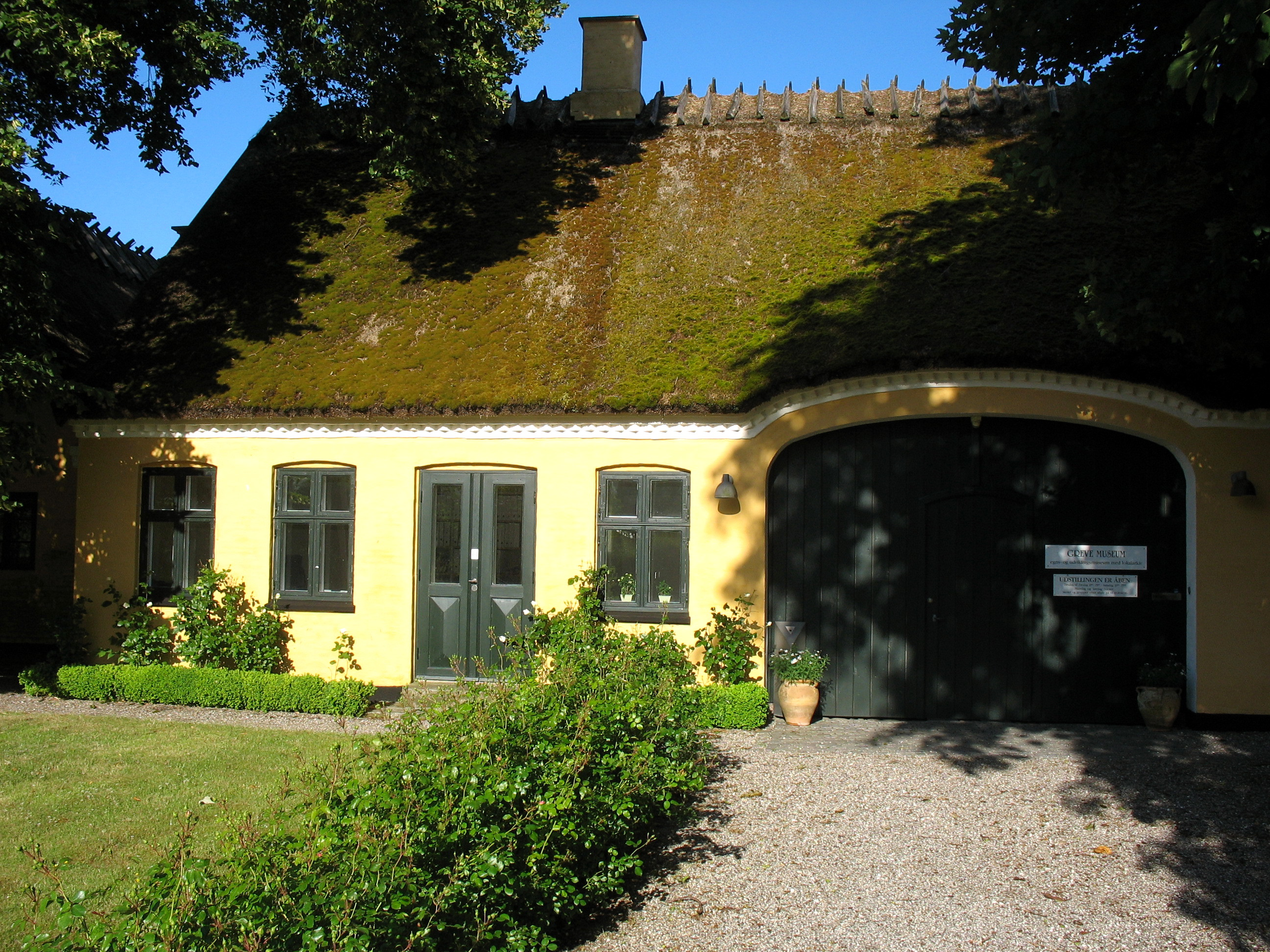 "Greve Museum" in the village "Greve". The place is located in North East Zealand in east Denmark.